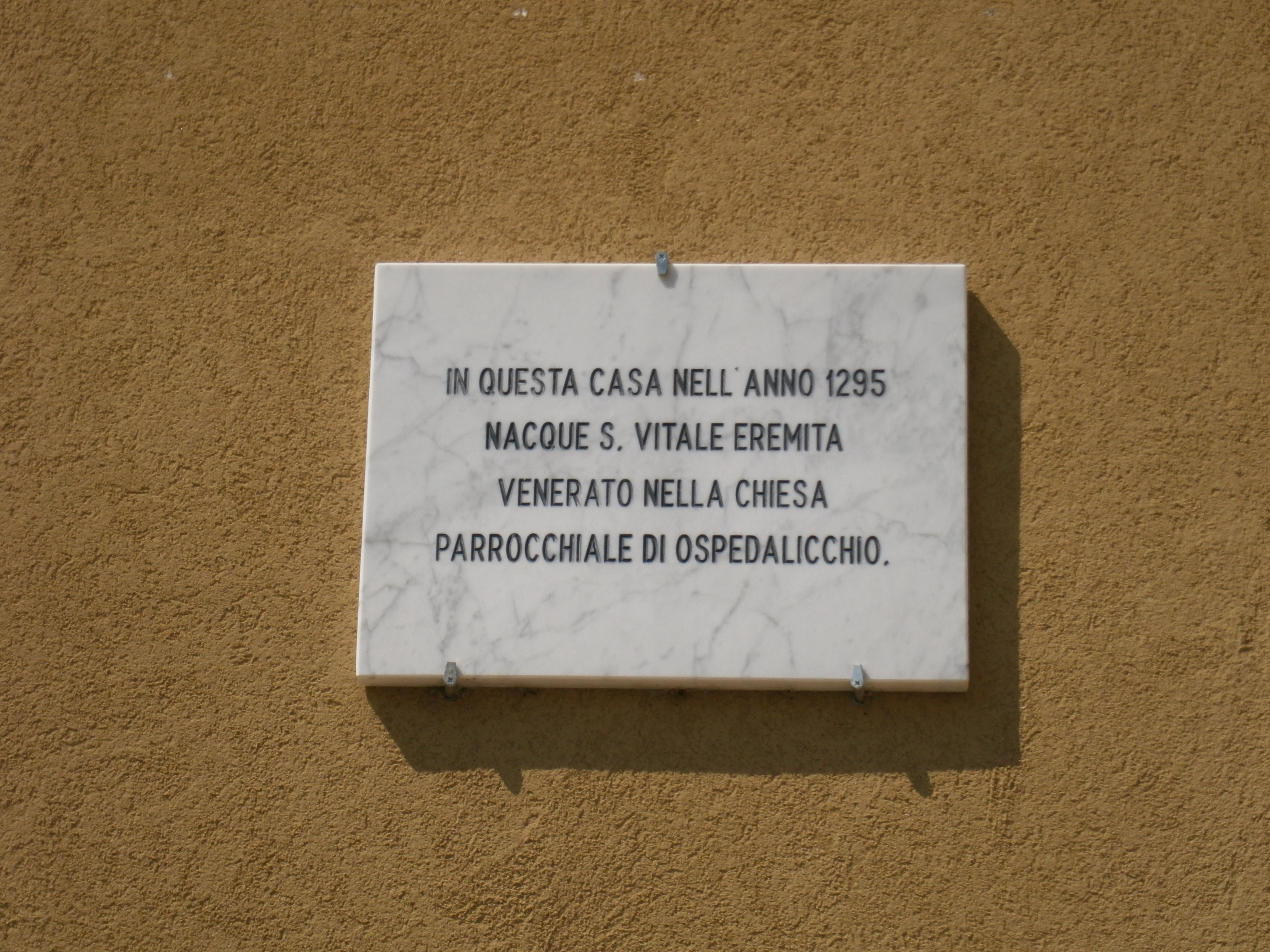 Ospedalicchio Castle, Northeast Tower, the birthplace of San Vitale, marble plaque